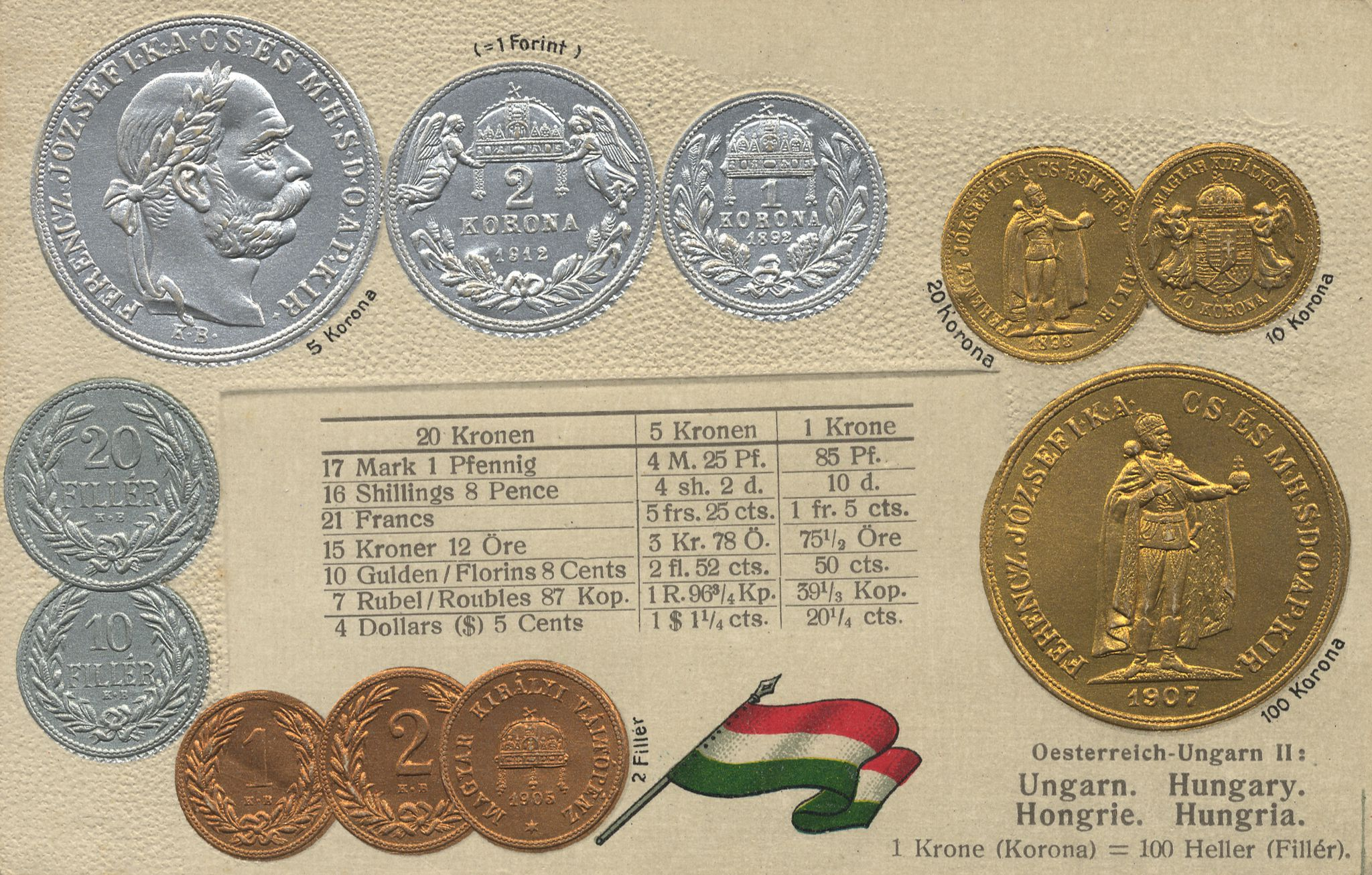 An Austro-Hungarian postcard depicting all the coins that circulated in the lands of the Crown of St. Stephen.